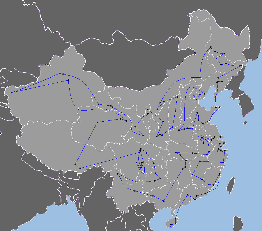 The planned route of 2008 Beijing Olympic Games in Mainland China before the 2008 Sichuan Earthquake.